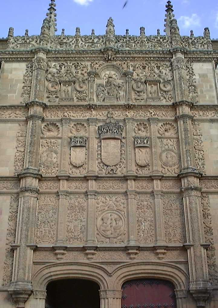 University of Salamanca